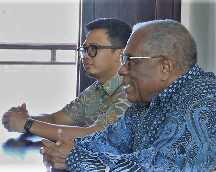 Fidelino Loy de Jesus Figueiredo, ambassador of Angola to Timor-Leste.